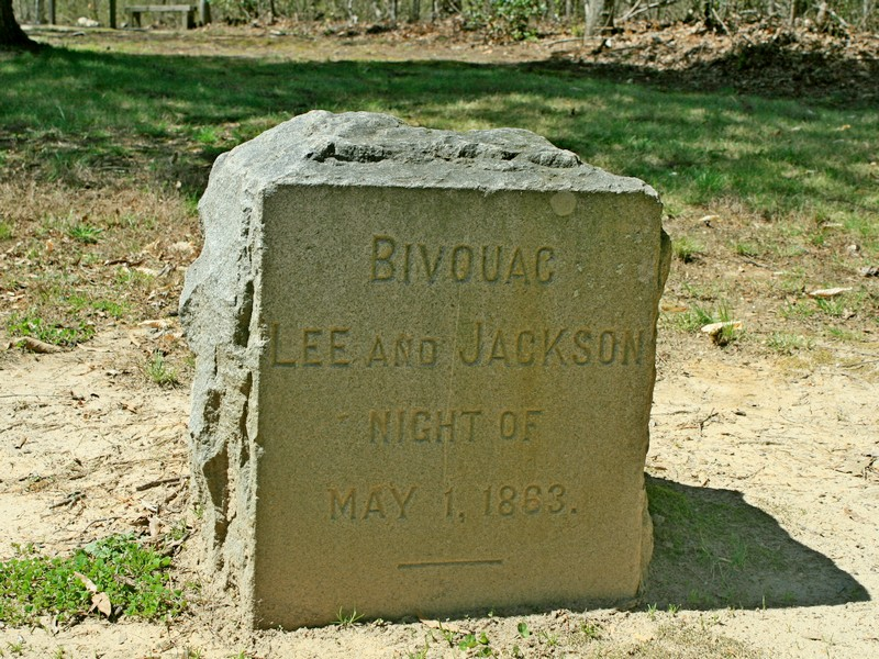 The site of last Lee and Jackson meeting at Chancellorsville batlefield.